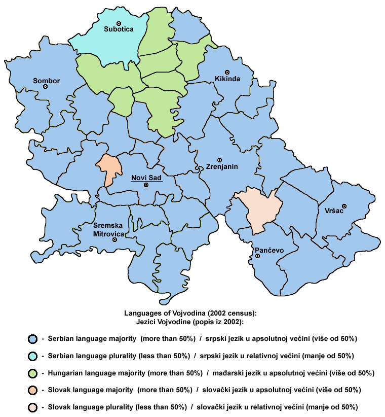 Vojvodina language map - data by municipalities (2002 census)